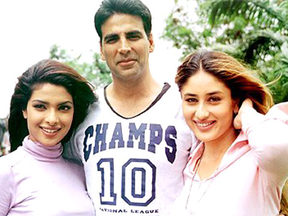 Priyanka Chopra, Akshay Kumar and Kareena Kapoor on the Aitraaz film set filming in 2004